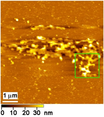 Atomic-force microscopic image of part of a Golgi apparatus isolated from HeLa cells